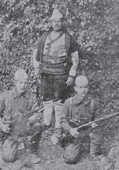 Spiro Kelemanov with his IMARO fellows